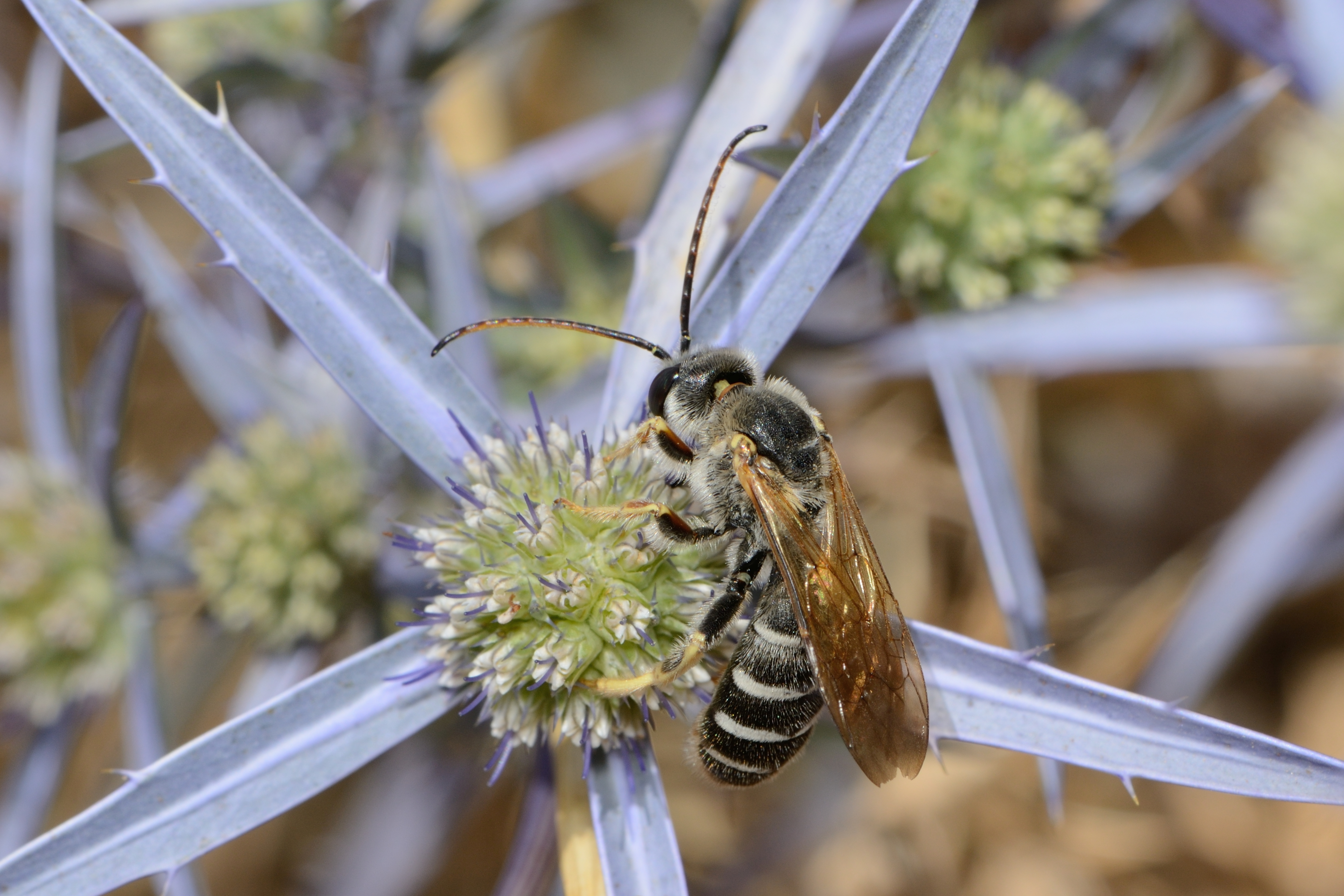 Halictus quadricinctus (Fabricius 1776), male foraging on Eryngium creticum, Mount Meron, Israel, June 14, 2013.